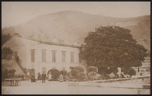 Elba island